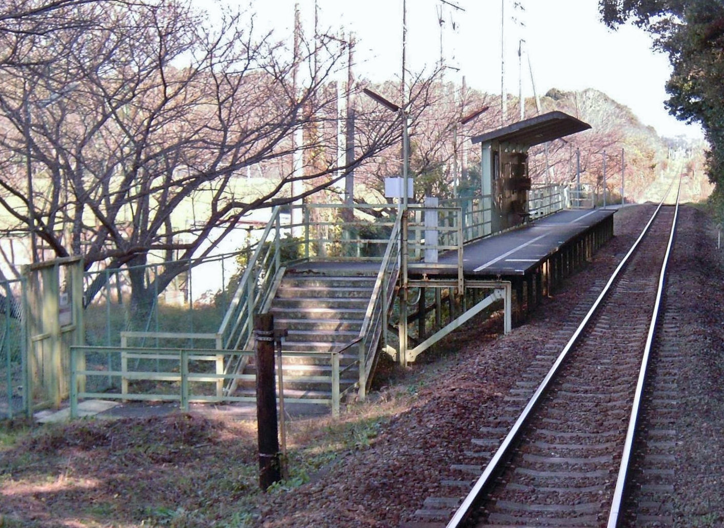 Tenryu-Hamanako railroad company Asumomae Station